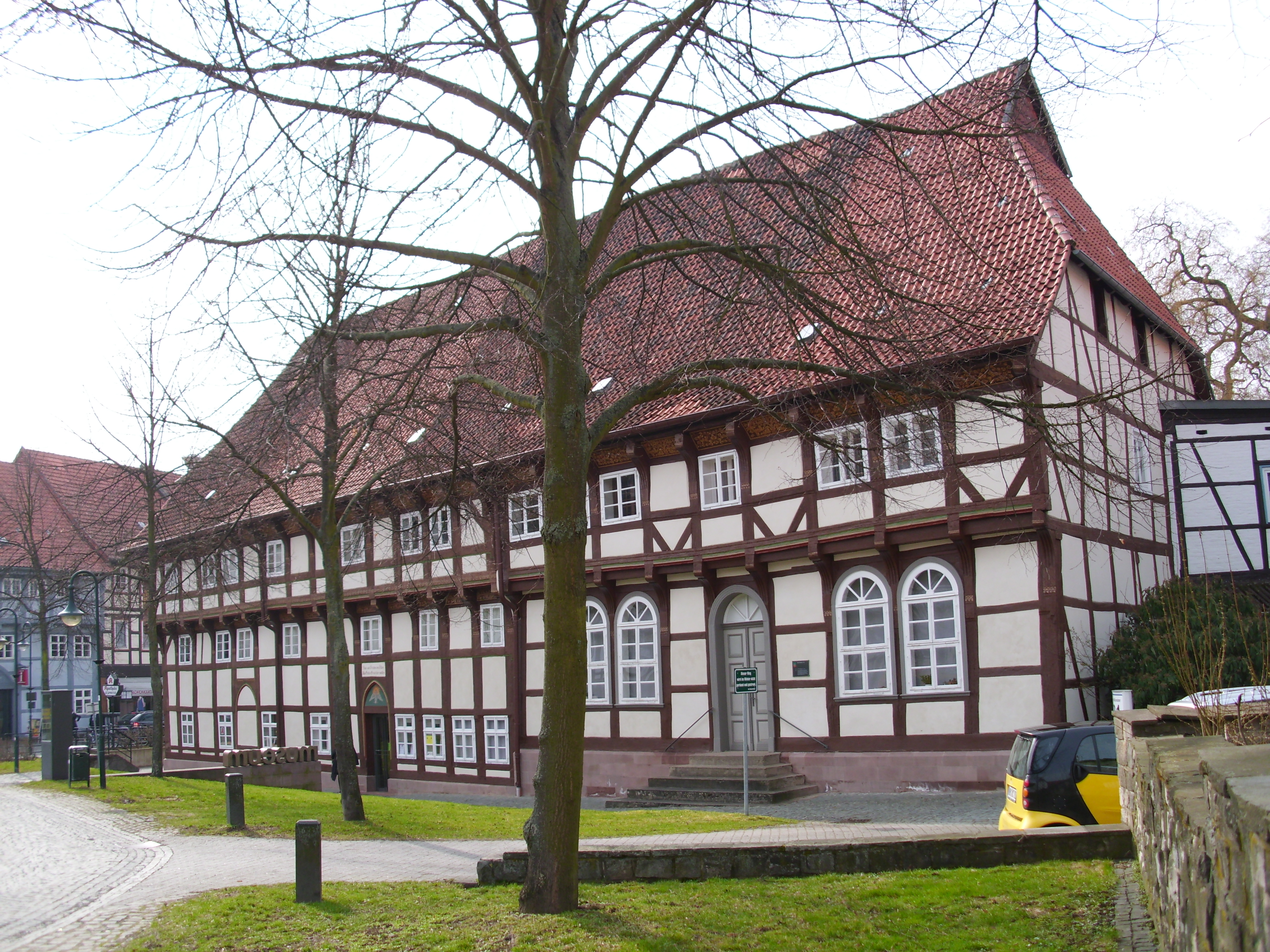 The local museum at Northeim (the building is called St. Spiritus)